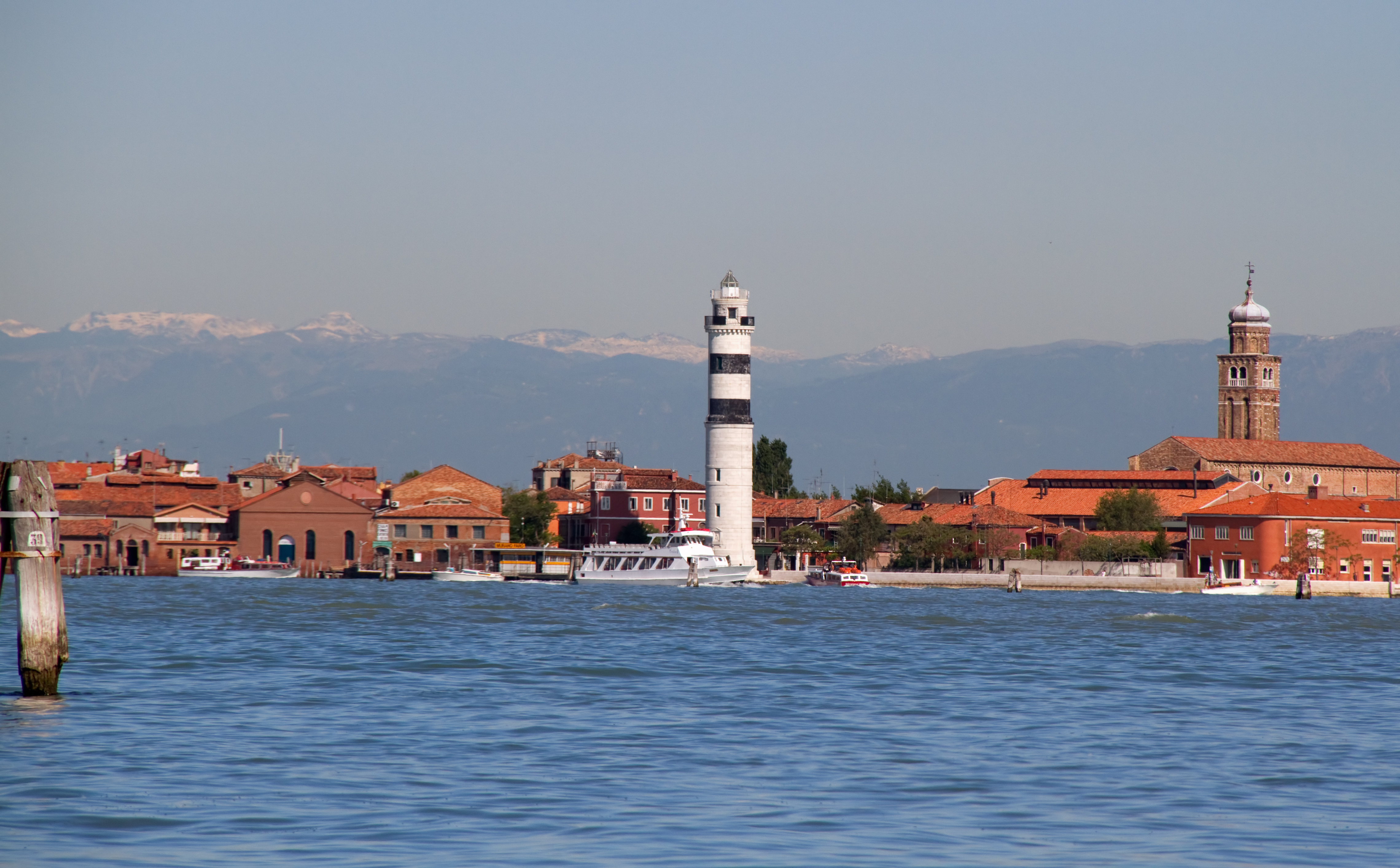 Venice Lighthouse